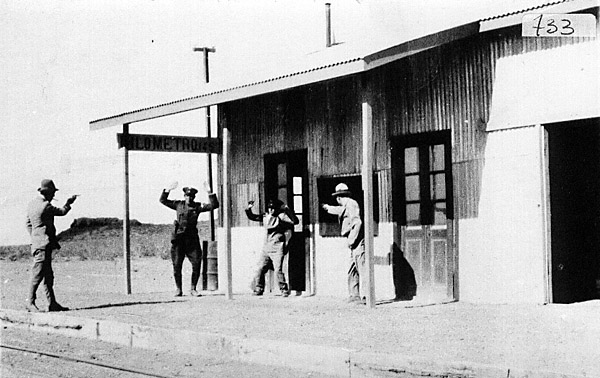 Employees of Kilometro 145 rail station having fun with a gun. The station was then renamed as "Campamento Villegas".